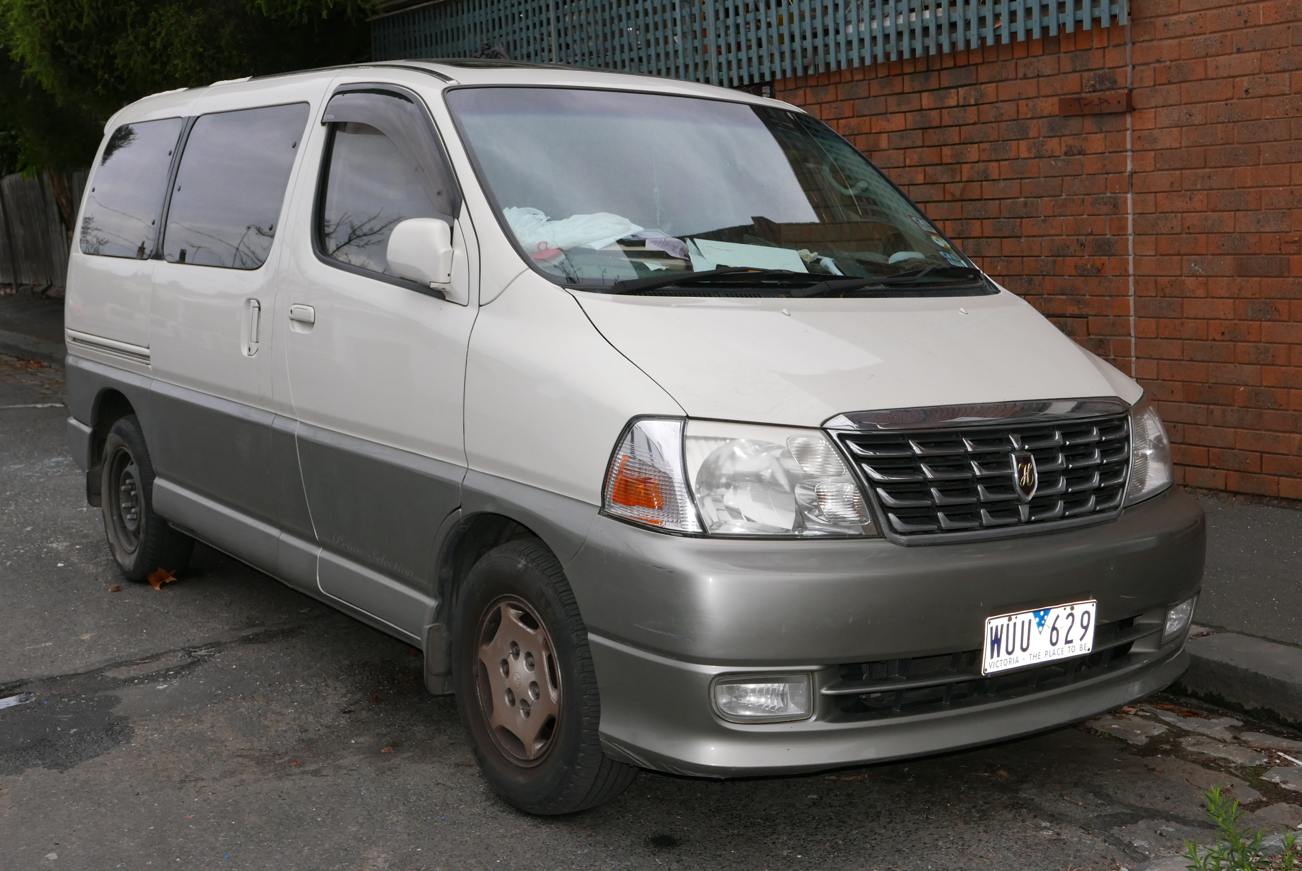 2001 Toyota Grand HiAce (VCH10W) G Prime Selection van. This is a grey import from Japan, complianced for Australia in December 2008. Photographed in Fitzroy, Victoria, Australia. Vehicle registration enquiry resultsJurisdictionVictoriaRegistrationWUU629Chassis code6U900VCH100030915Engine code5VZ1351103Compliance date2008-12Year of manufacture2001